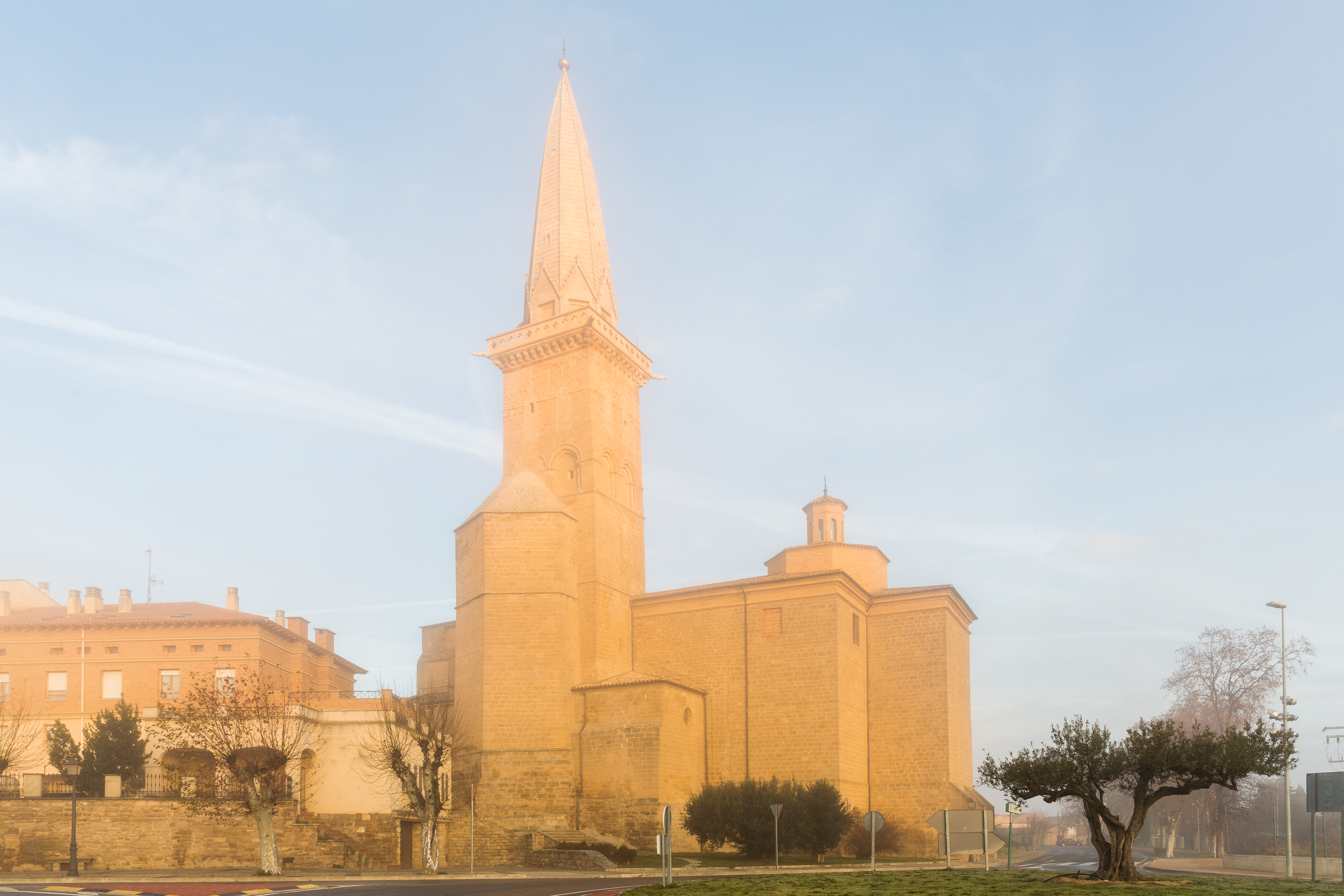 St Peter's church, Olite, Navarre, Spain